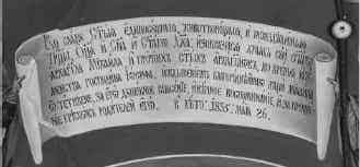 Archangels Chapel in Rila Monastery Ktetor's Inscription - 1835